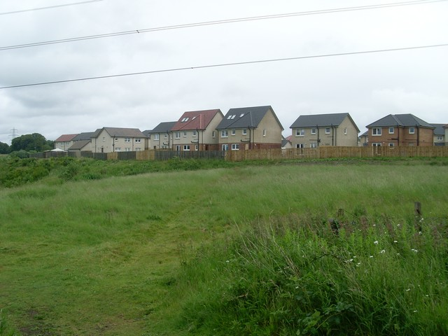 Westburn Village From the Clyde Walkway.